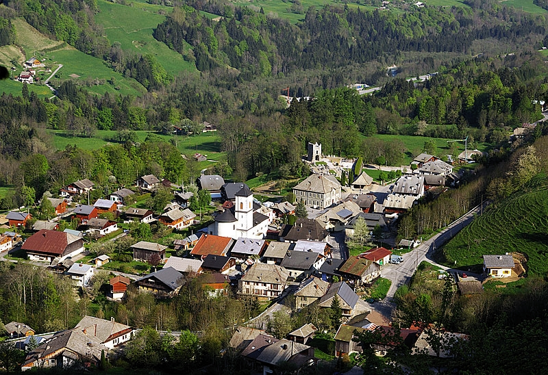 Le Biot Village, in the heart of the Vallée d'Aulps, Haute-Savoie, France